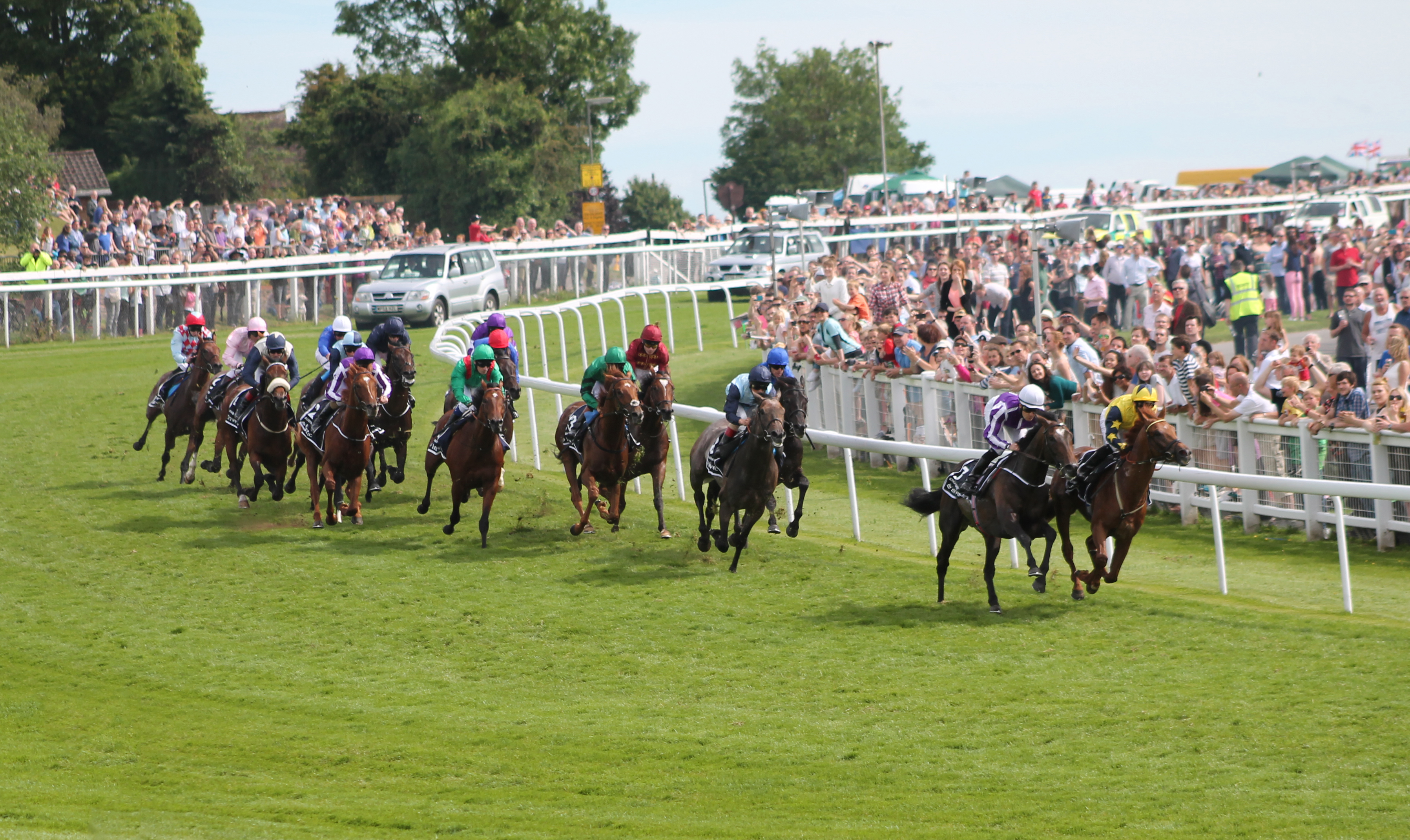 2014 Derby field rounding Tattenham Corner. Winner, Australia, is on the outside.